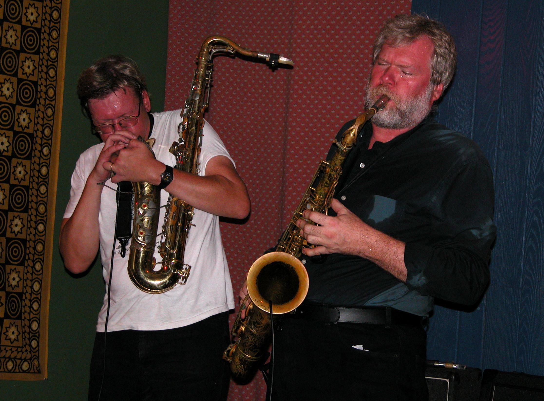 description: Don Dietrich & Jim Sauter photographer: Seth Tisue photographer_location: Boston, MA, USA photographer_url: [1] flickr_url: [2] taken: September 25, 2004